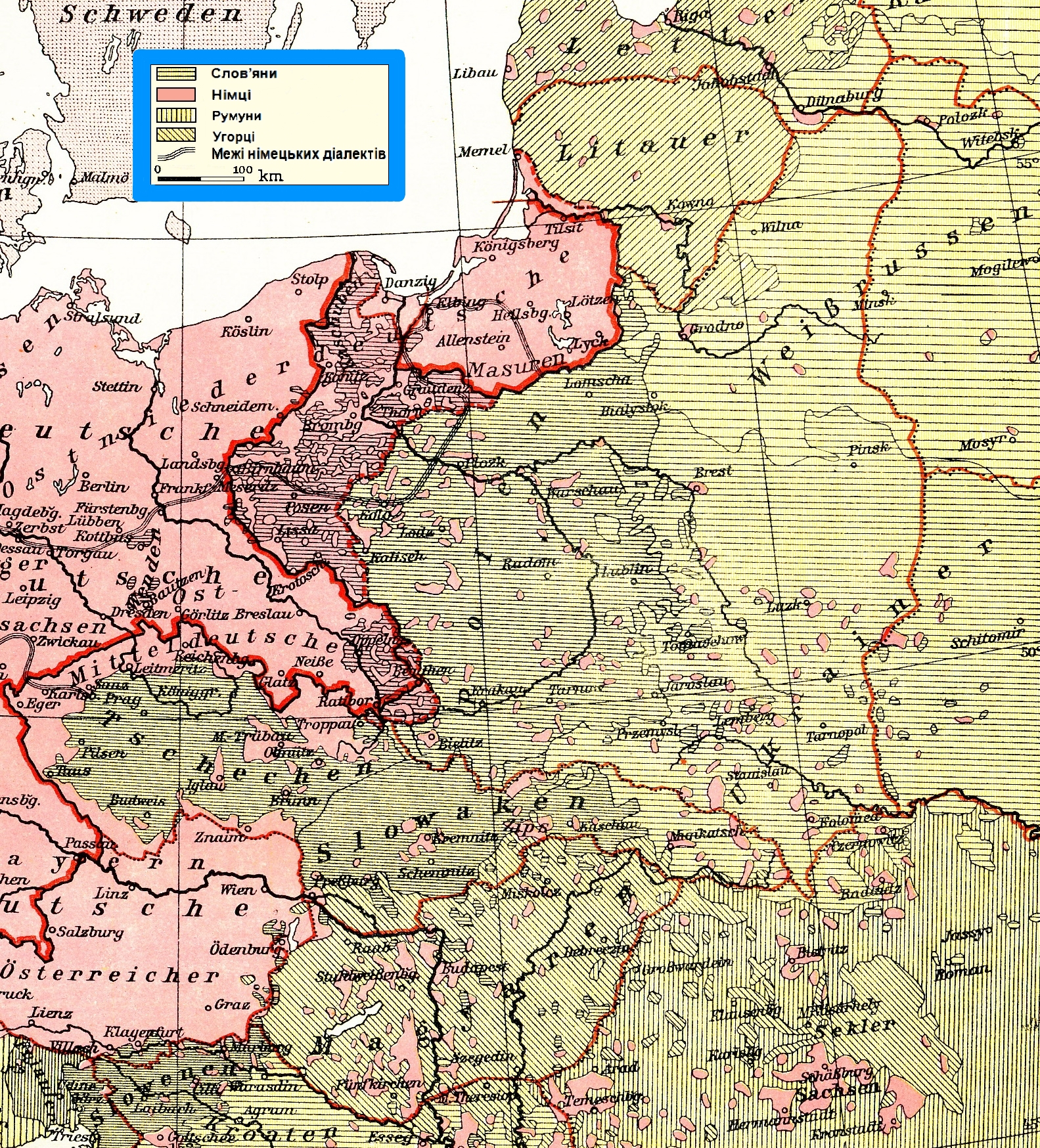 "Ethnographic maps of Central Europe"